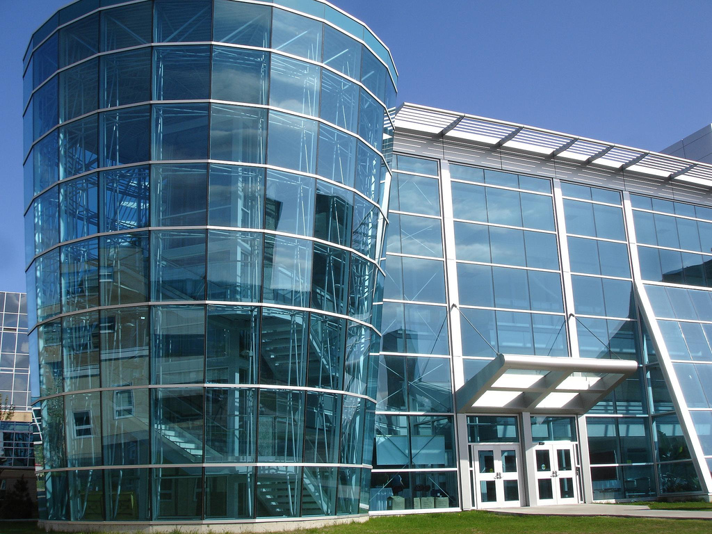 Bruneau Centre for Research and Innovation, Memorial University of Newfoundland